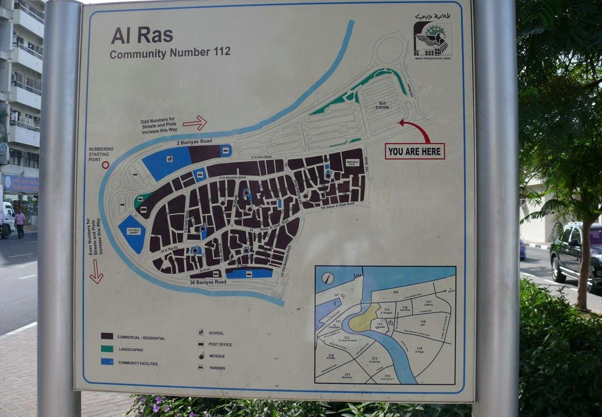 This is a photo showing a sign depicting the Al Ras area of Deira, Dubai, United Arab Emirates on 26 December 2007. The sign is located next to the Deira Bus Station.